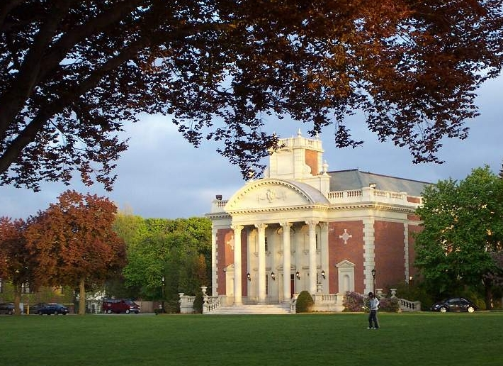 Summary: photograph of Warner Theater at Worcester Academy, Worcester, MA, taken by author in May, 2003.